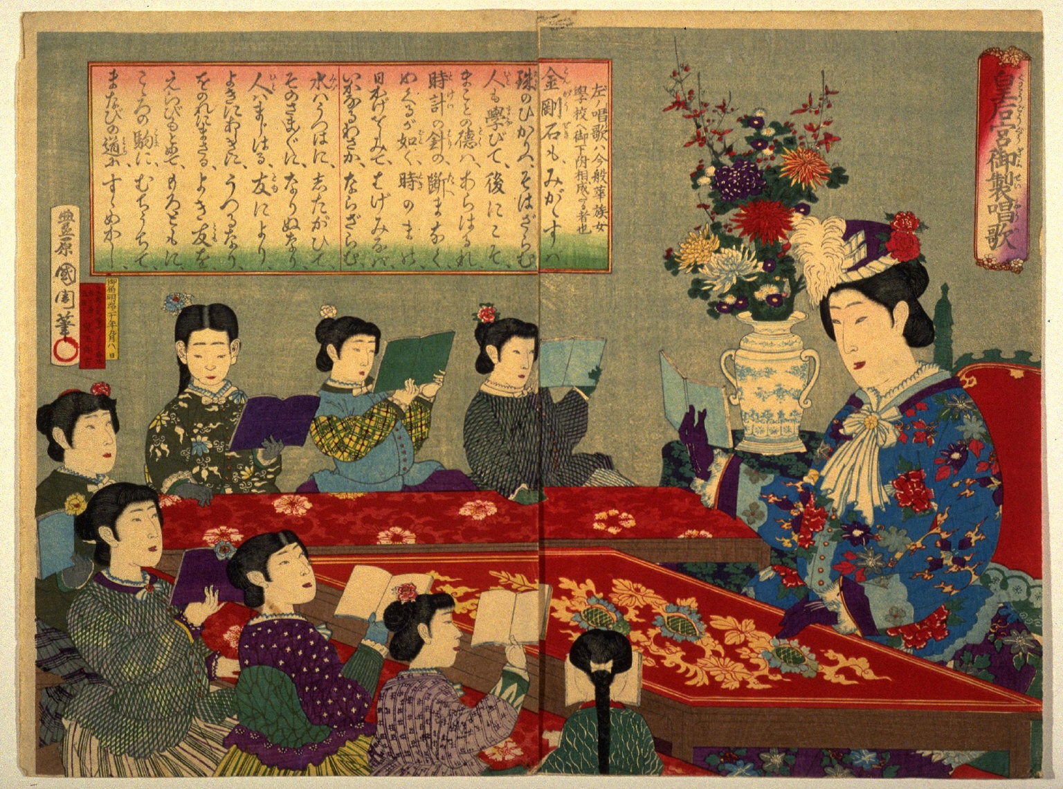 The Meiji Empress Teaching Children to Read